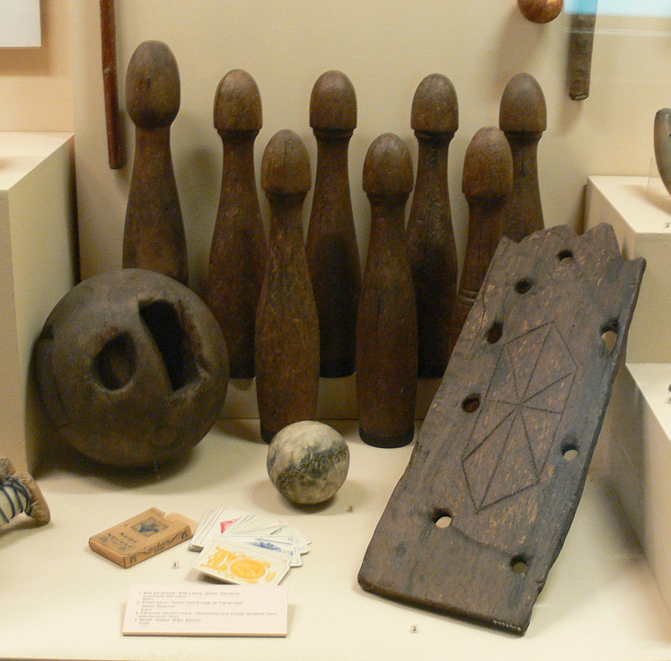 Basque bowling game.